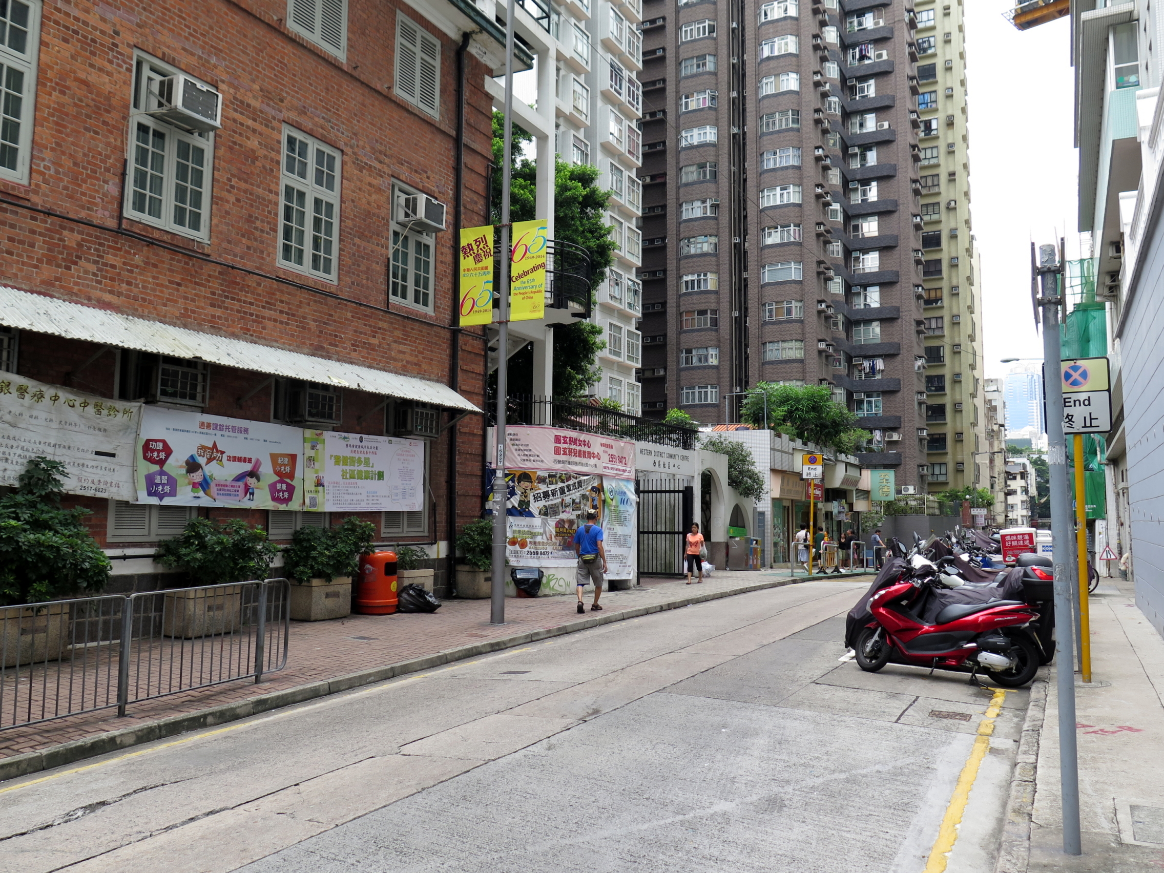 Third Street ,Sai Ying Pun